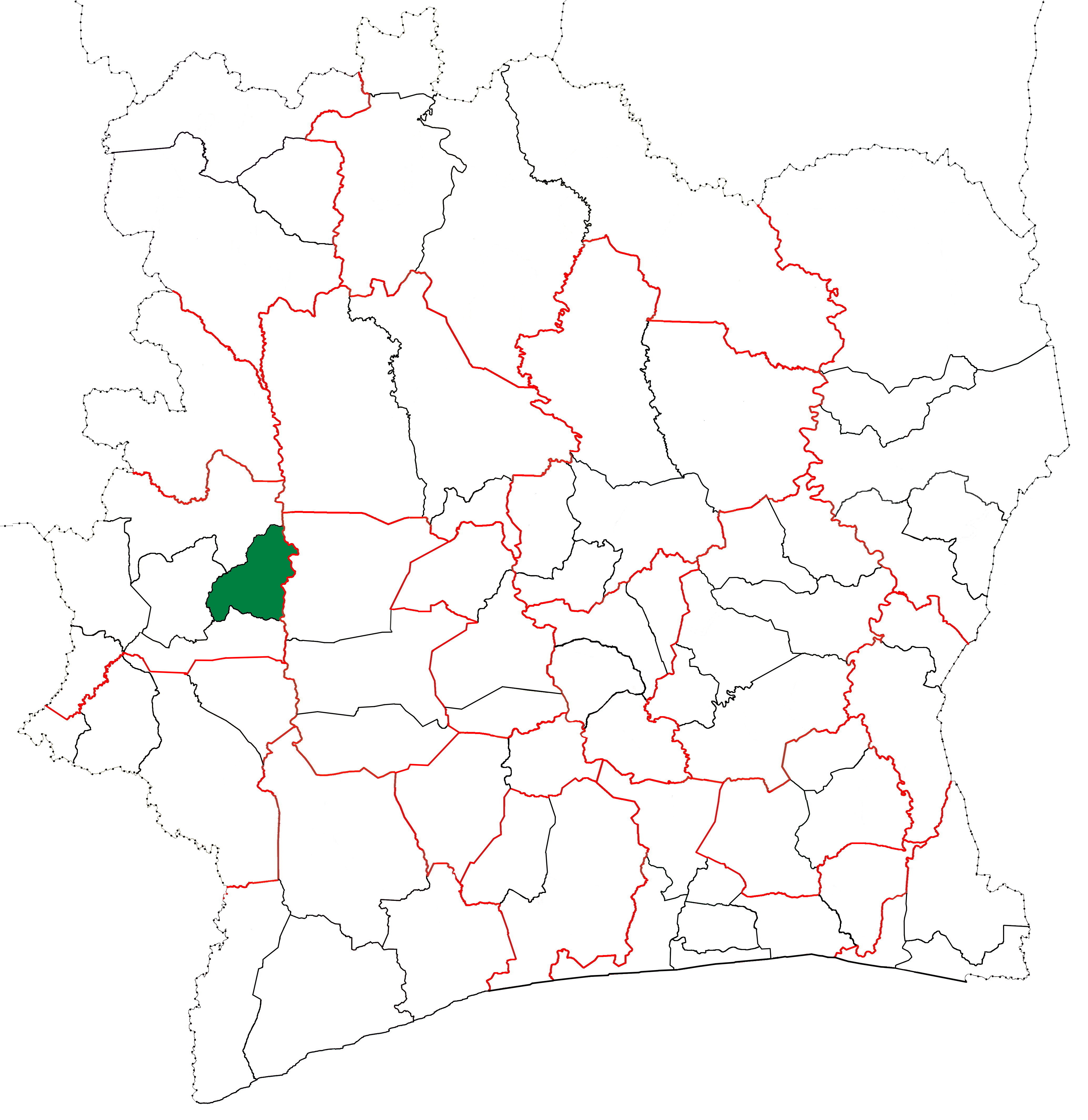 Locator map for Kouibly Department in Côte d'Ivoire when it was created in 2005. Kouibly Department kept these boundaries until 2012, but other boundary changes to subdivisions of Côte d'Ivoire began to be made in 2008.